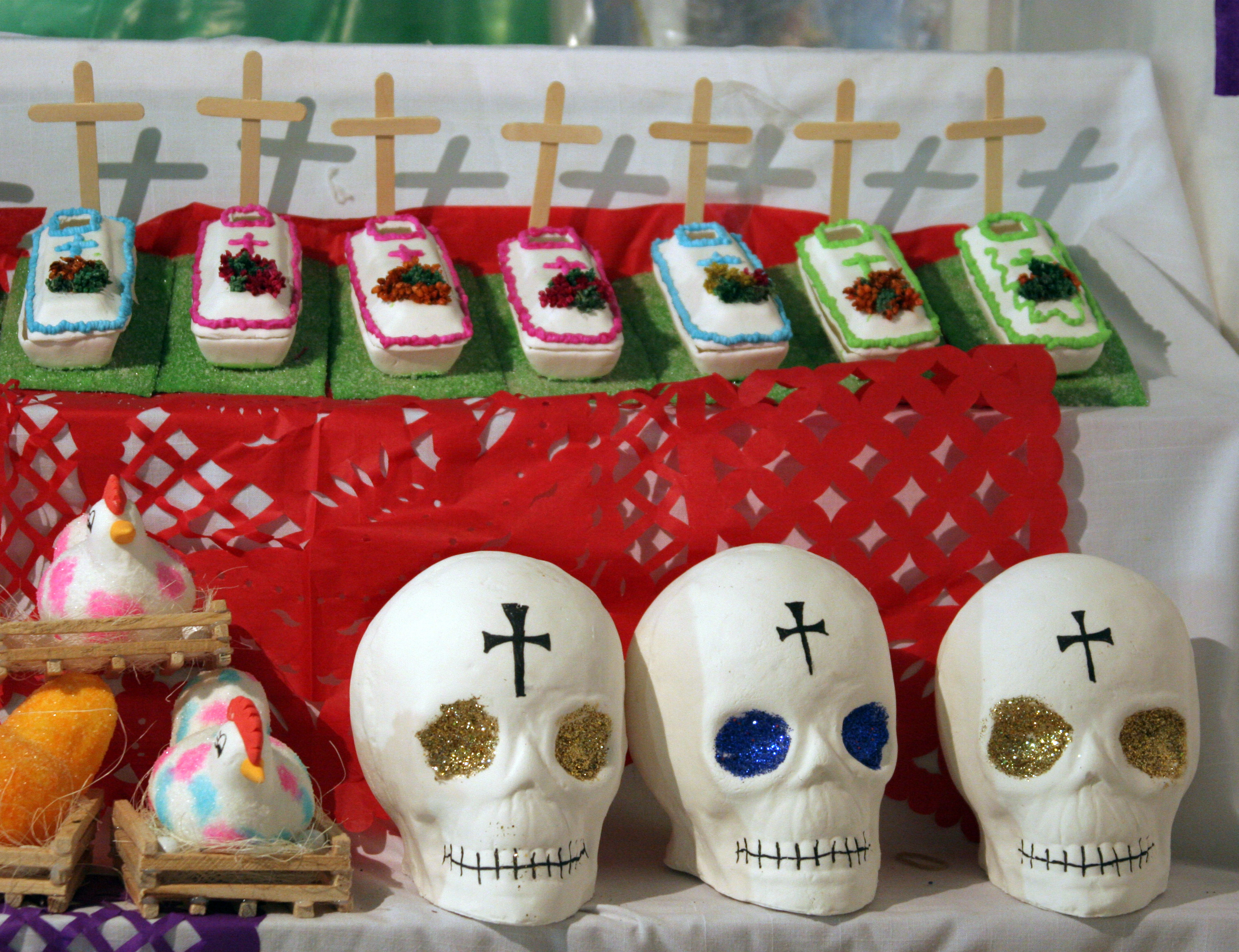 Traditional sugar figures of the celebration of Day of the Dead in Mexico.